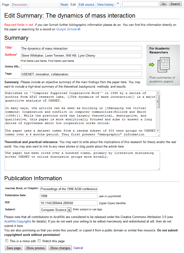 A screenshot of the URL - shows the use of the MediaWiki extension Semantic Forms on the website AcaWiki. Semantic Forms is open source software under the GPL license, and the content of AcaWiki is available under the Creative Commons Attribution 3.0.